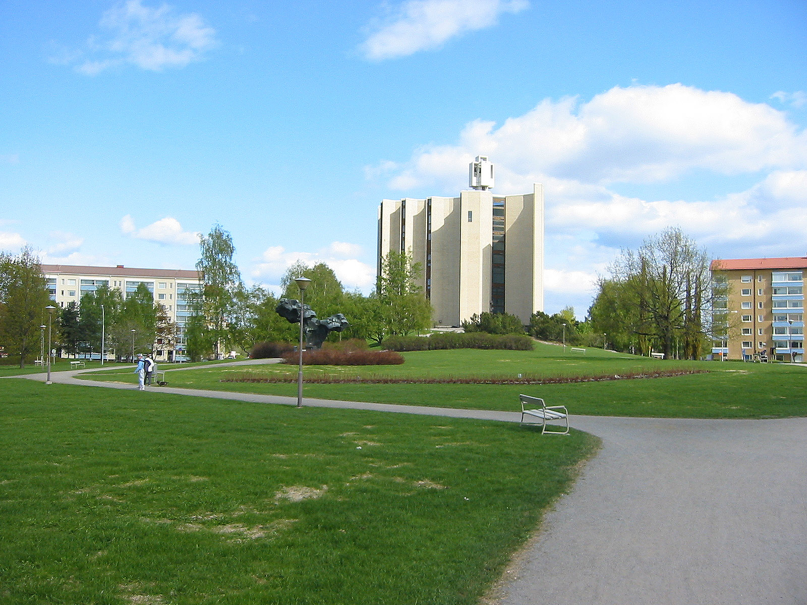 Kaleva church, Tampere, Finland. self taken